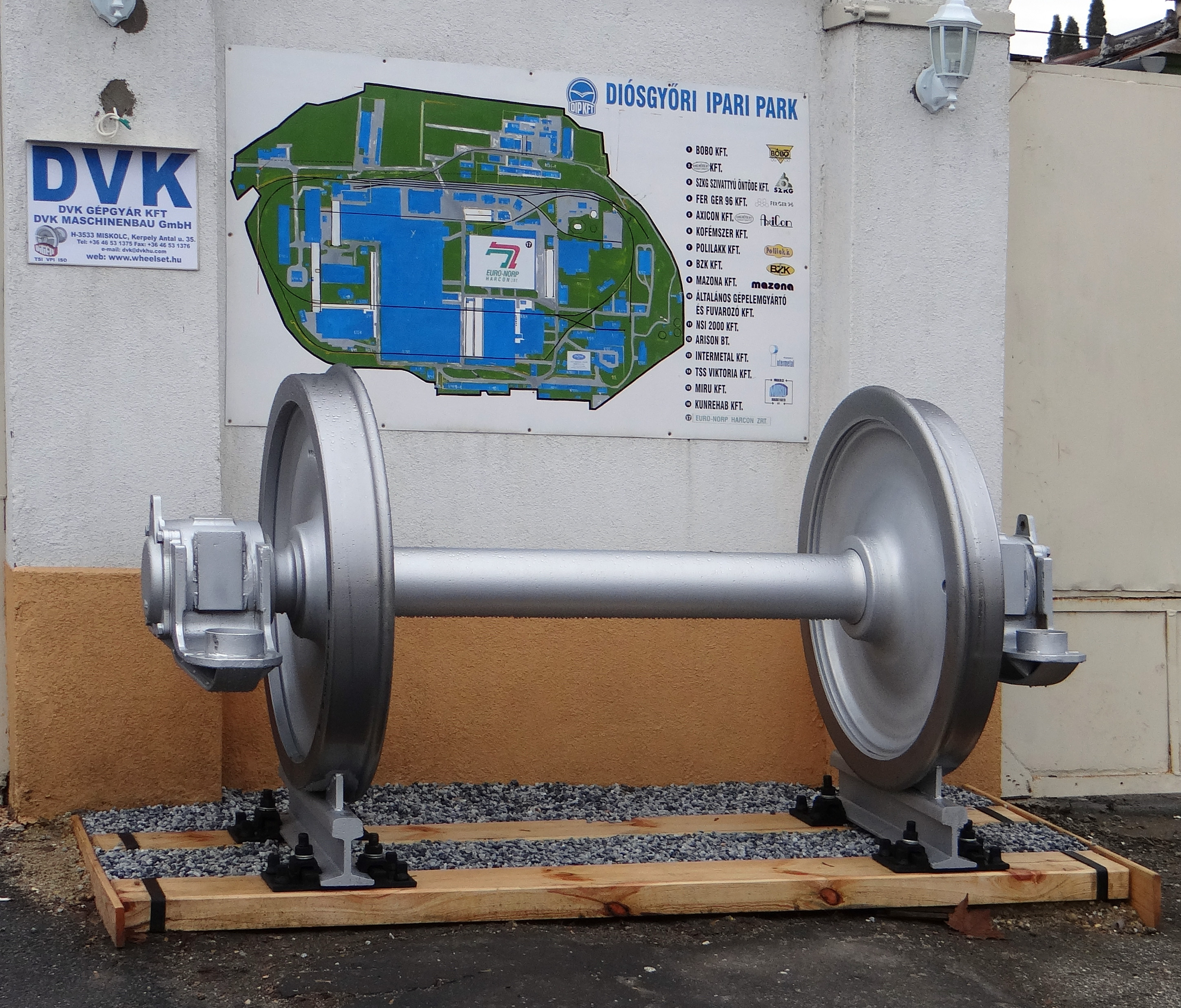 Railway wheels on the front Diósgyőr Machine Works, Miskolc, Hungary